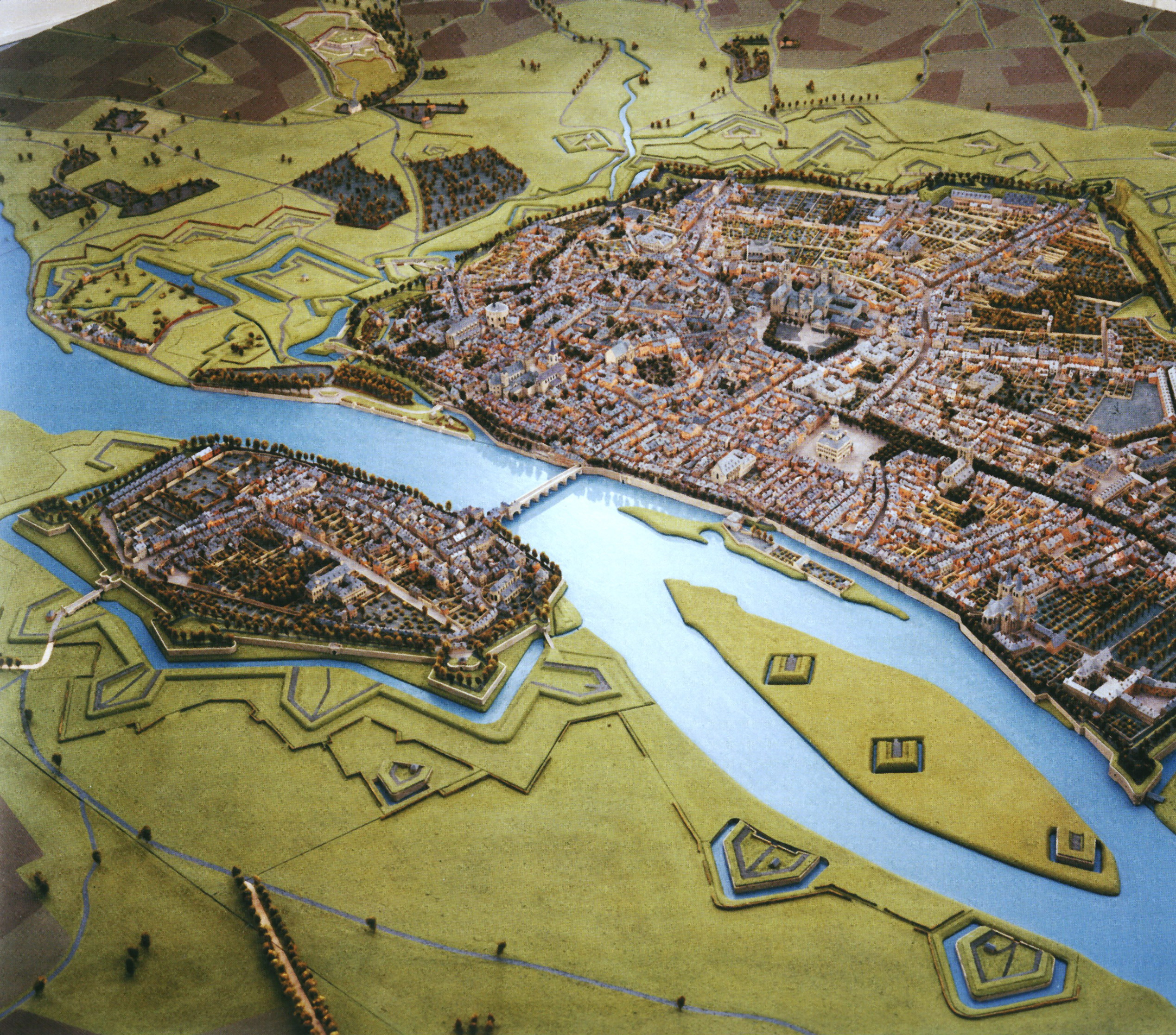 Maquette of Maastricht 1750